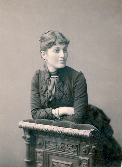 Georgian noblewoman and socialite, Agrippina Japaridze, Countess of Zernekau, wife of Duke Constantine Petrovich of Oldenburg